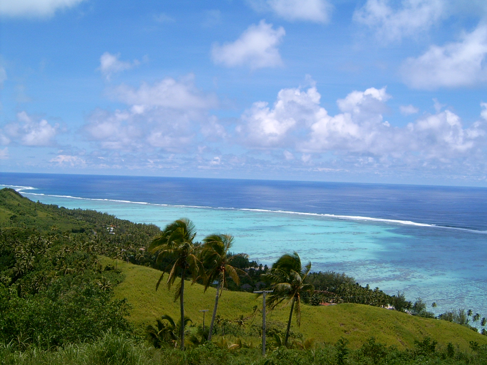 Aitutaki in the Cook Islands, from the viewpoint Maunga Pu.